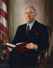 Peter W. Rodino of New Jersey; Member of Congress 1949-1989.